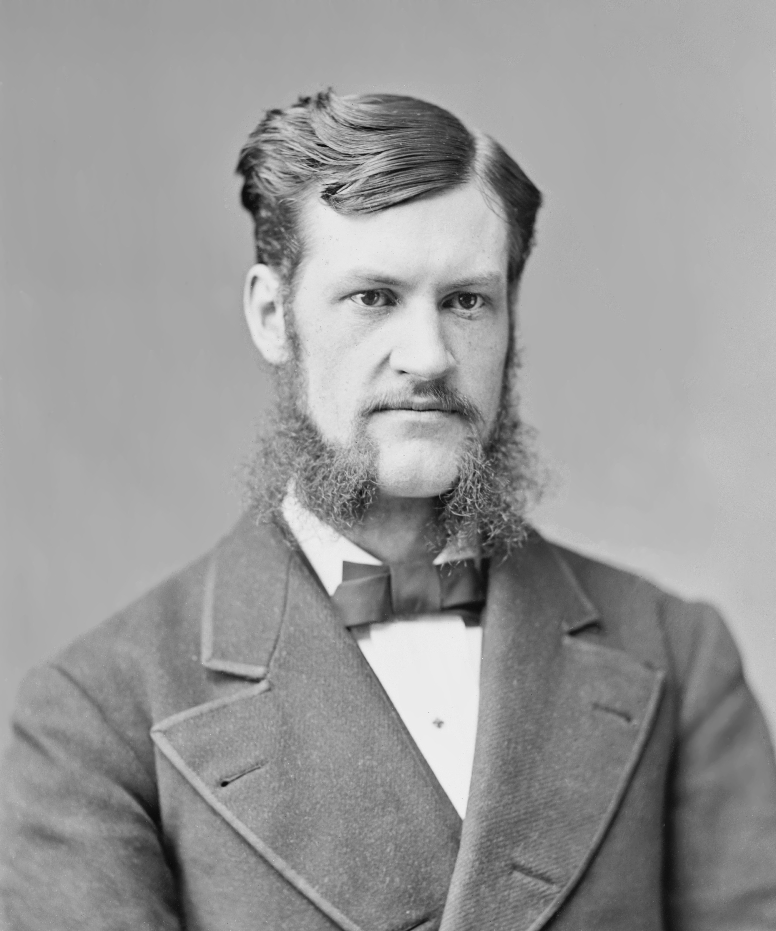 Kentucky Congressman John D. White